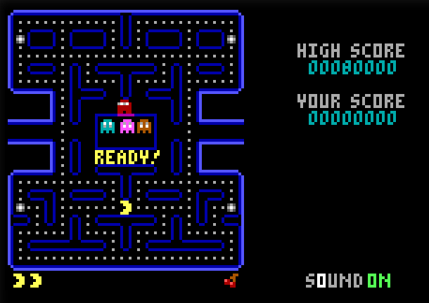 Screenshot of Paku Paku, a Pac-Man clone. Released into the public domain.